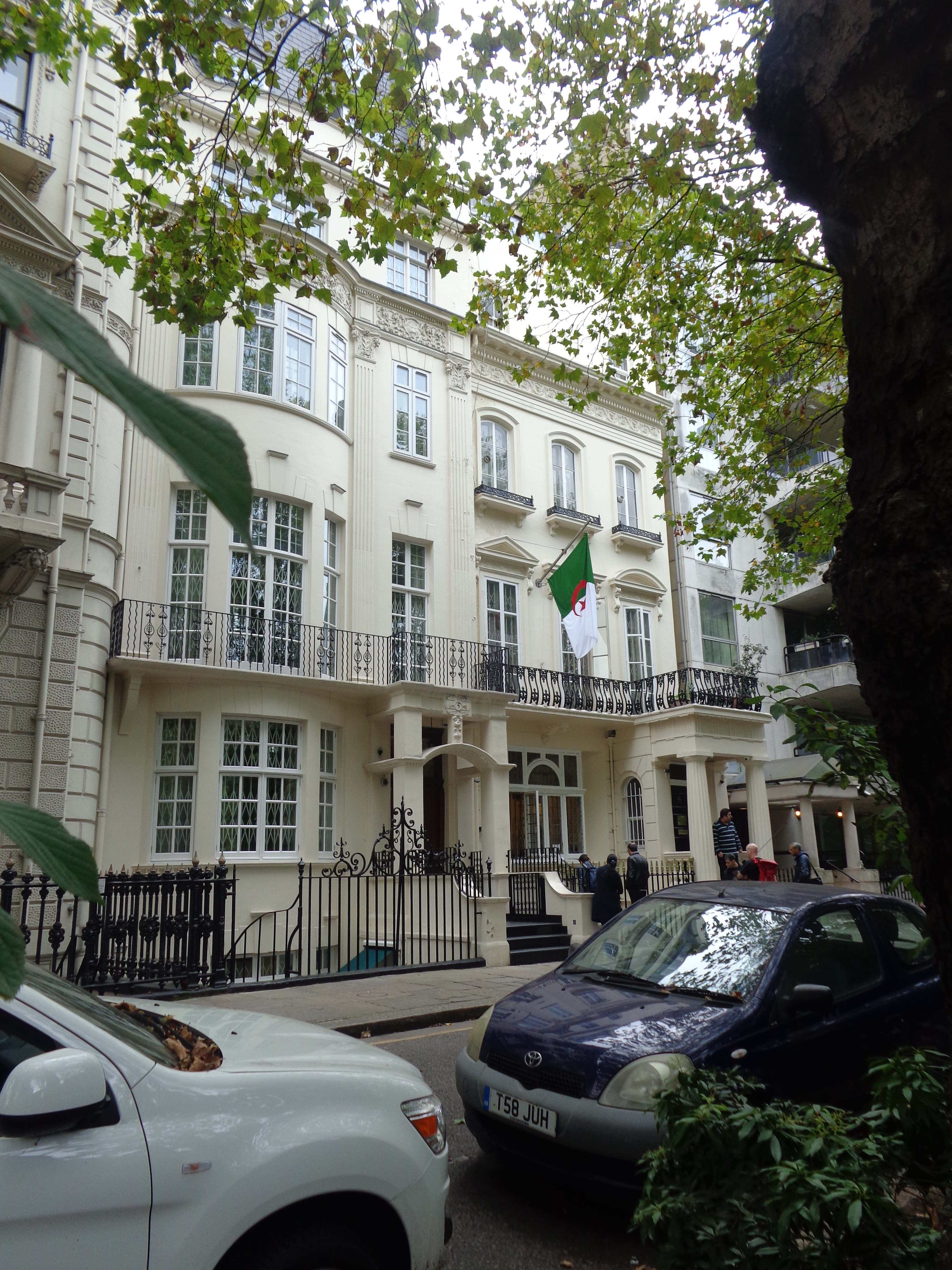 Algerian consulate, Hyde Park Gate (note this isn't the embassy, the embassy is on Riding House Street), Royal Borough of Kensington and Chelsea, London. Taken on the afternoon of Thursday the 25th of September 2014.